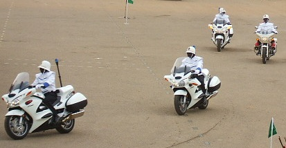 Ghana Police Service Police Motorbikes of Ghana Police Service, dispatch riders, leaving an parade ground in Ghana after ushering in the President of Ghana.